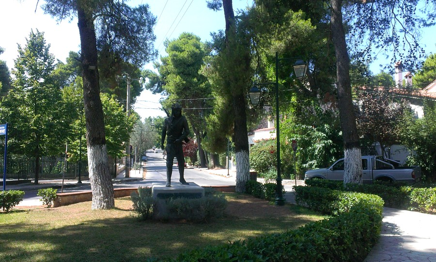 πλατεία